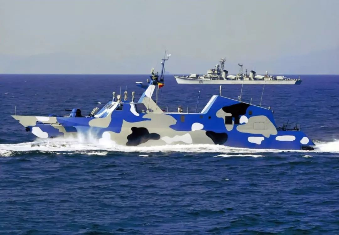 CSR Report RL33153 China Naval Modernization: Implications for U.S. Navy Capabilities—Background and Issues for Congress by Ronald O'Rourke dated February 28, 2014. Page 28 - Figure 10. Houbei (Type 022) Class Fast Attack Craft With an older Luda-class destroyer behind Source: Photograph provided to CRS by Navy Office of Legislative Affairs, December 2010.